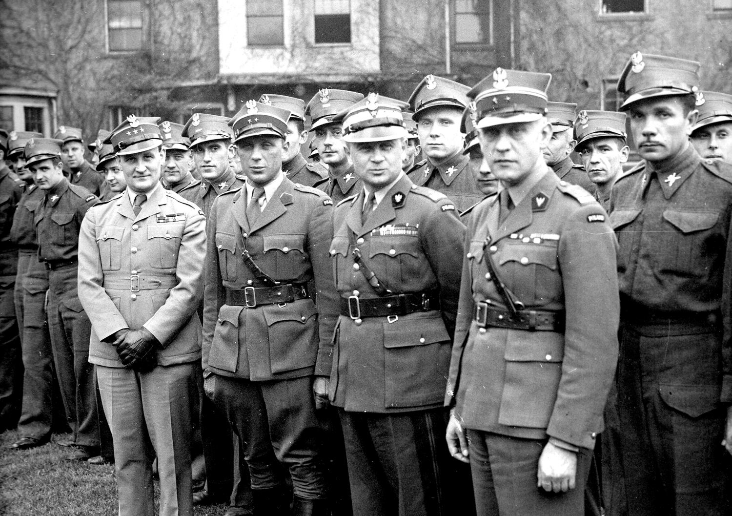 Group of first volunteers with gen. Duch and col. Andrzejewski in Windsor, Ont.